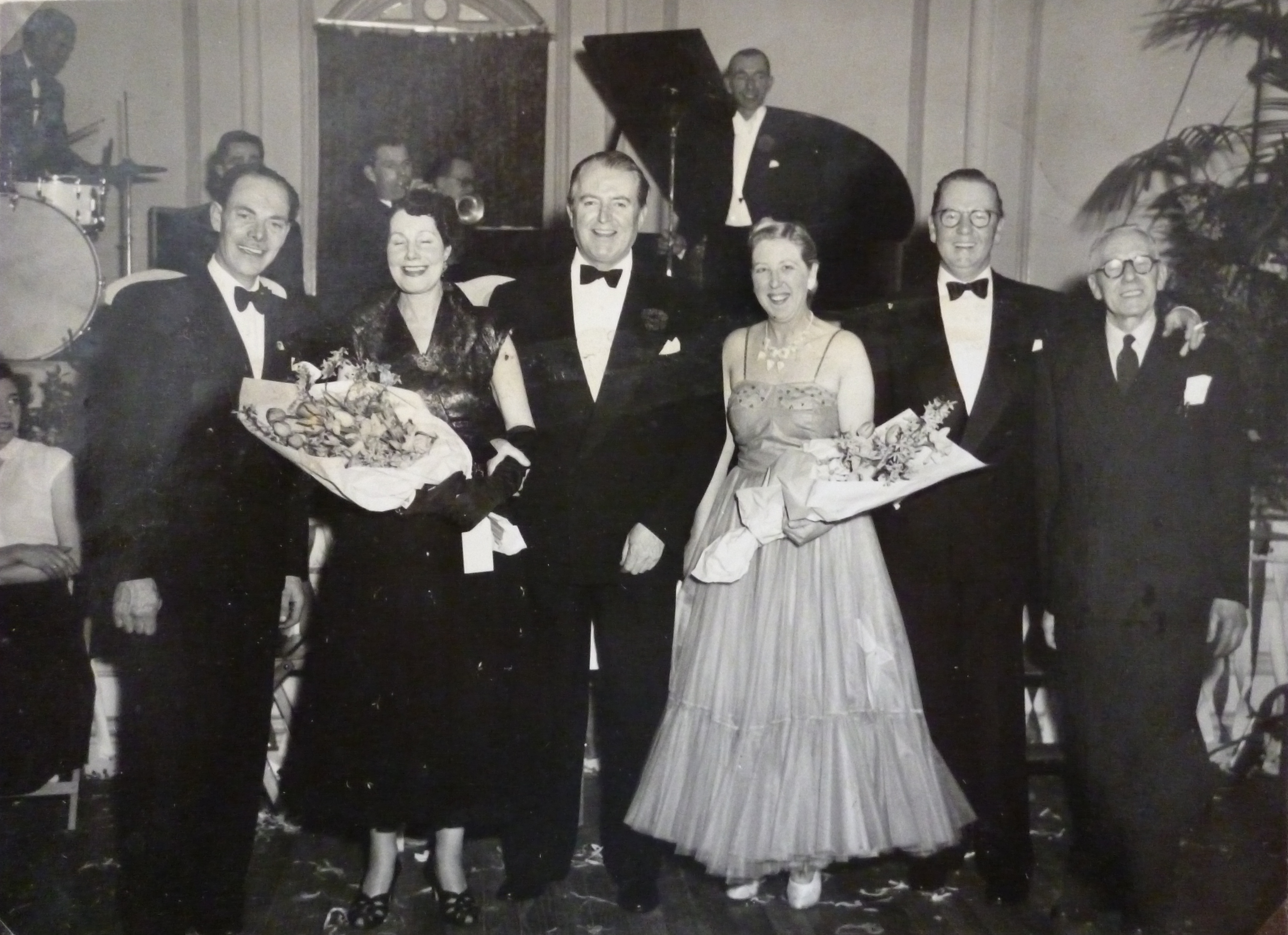 Mr & Mrs Warner photographed at the former Granville Hotel, Ramsgate, with proprietors and friends William and Florence Hamilton.